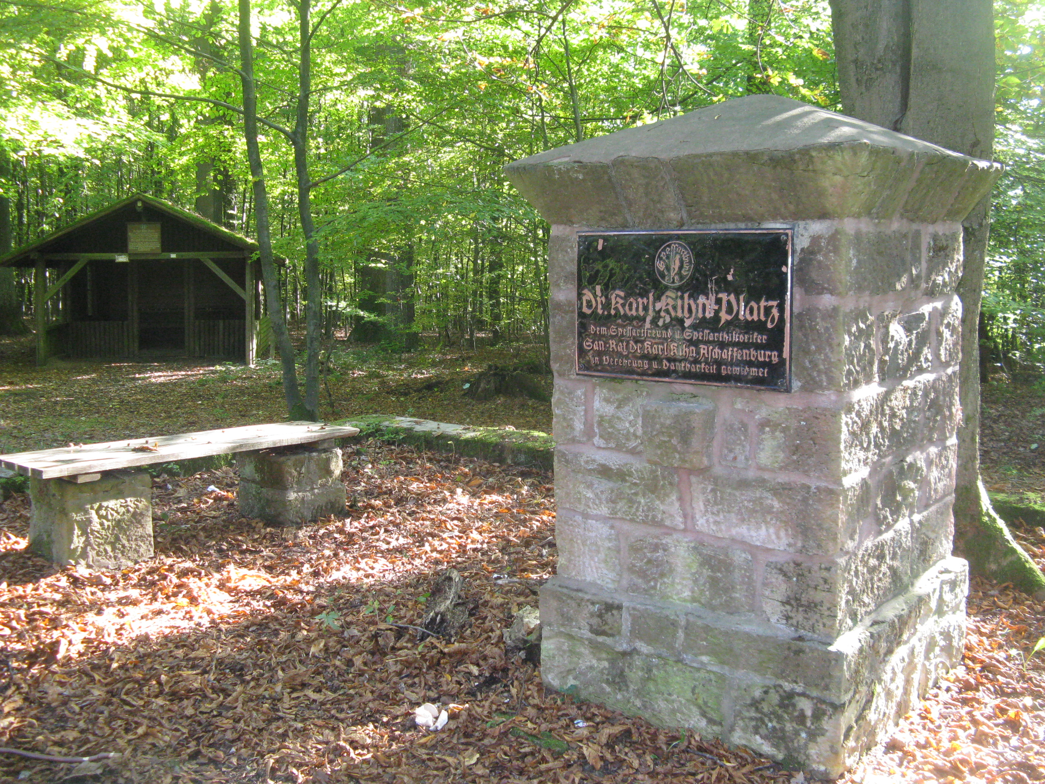 Dr. Karl Kihn Memorial (Spessart, Germany)